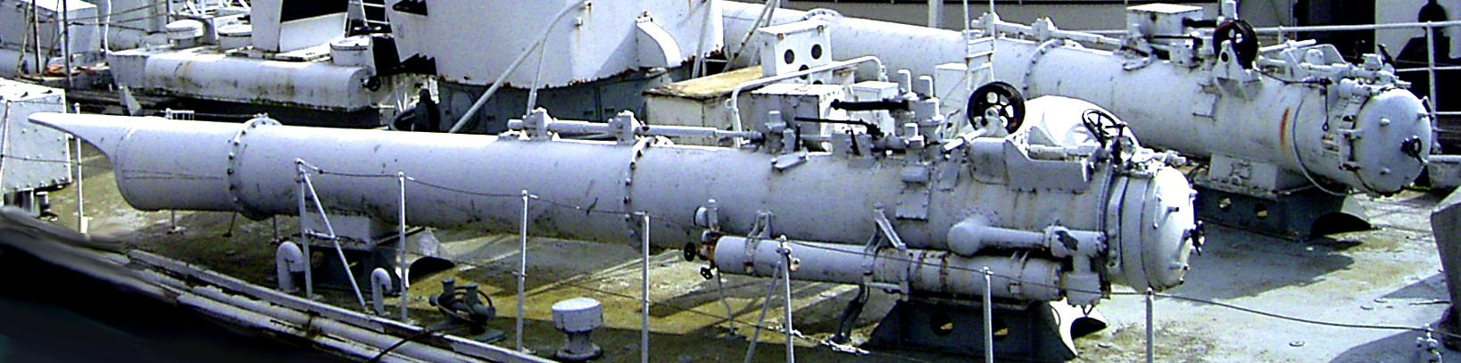 rear torpedo tube of a german Jaguar class E-Boat